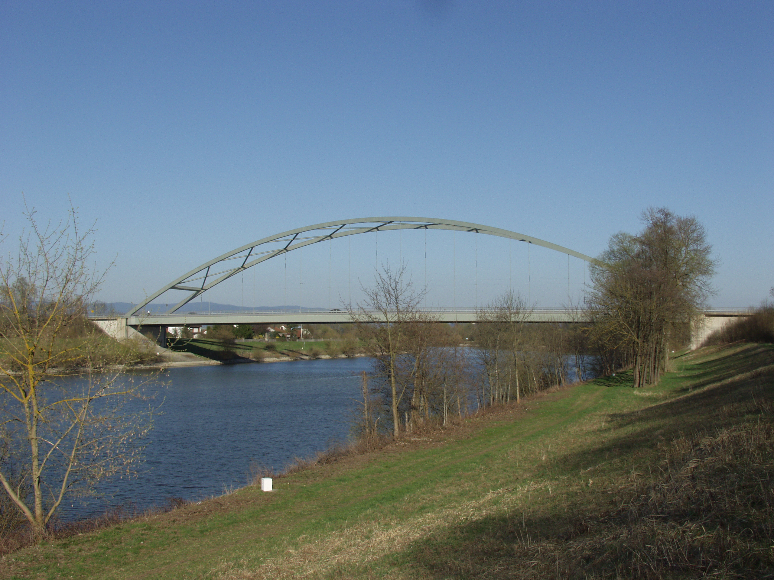 Iron tied arch bridge over river Danube near Straubing Object location48° 53′ 50.96″ N, 12° 34′ 51.28″ E